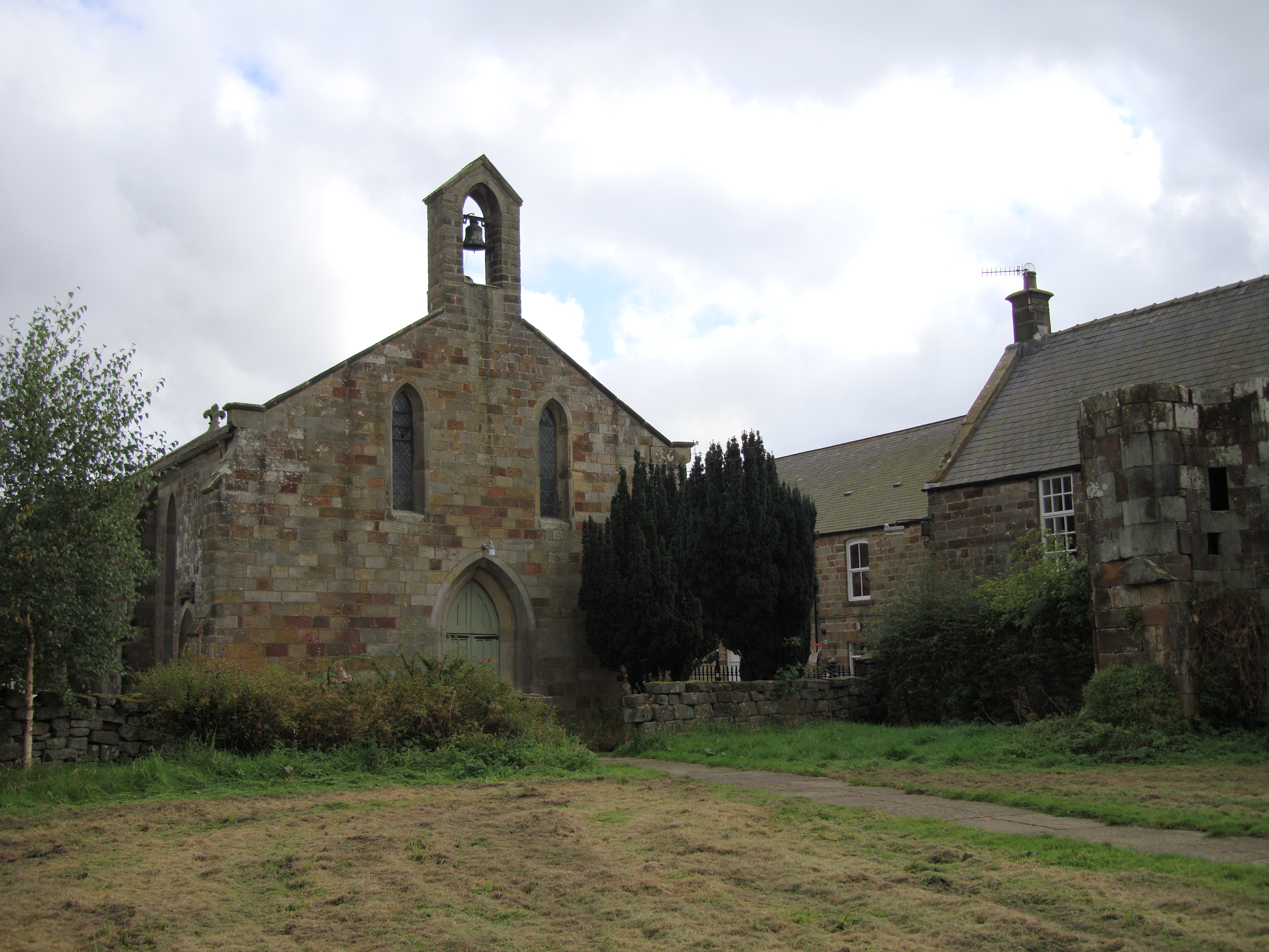 Photograph of Rosedale Abbey, North Yorkshire, England